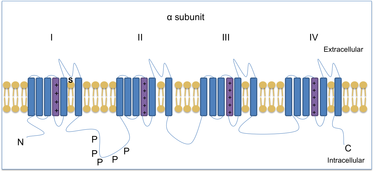 Alpha subunit of Nav1.8, it shows 4 homologous domains each with 6 transmembrane spanning regions